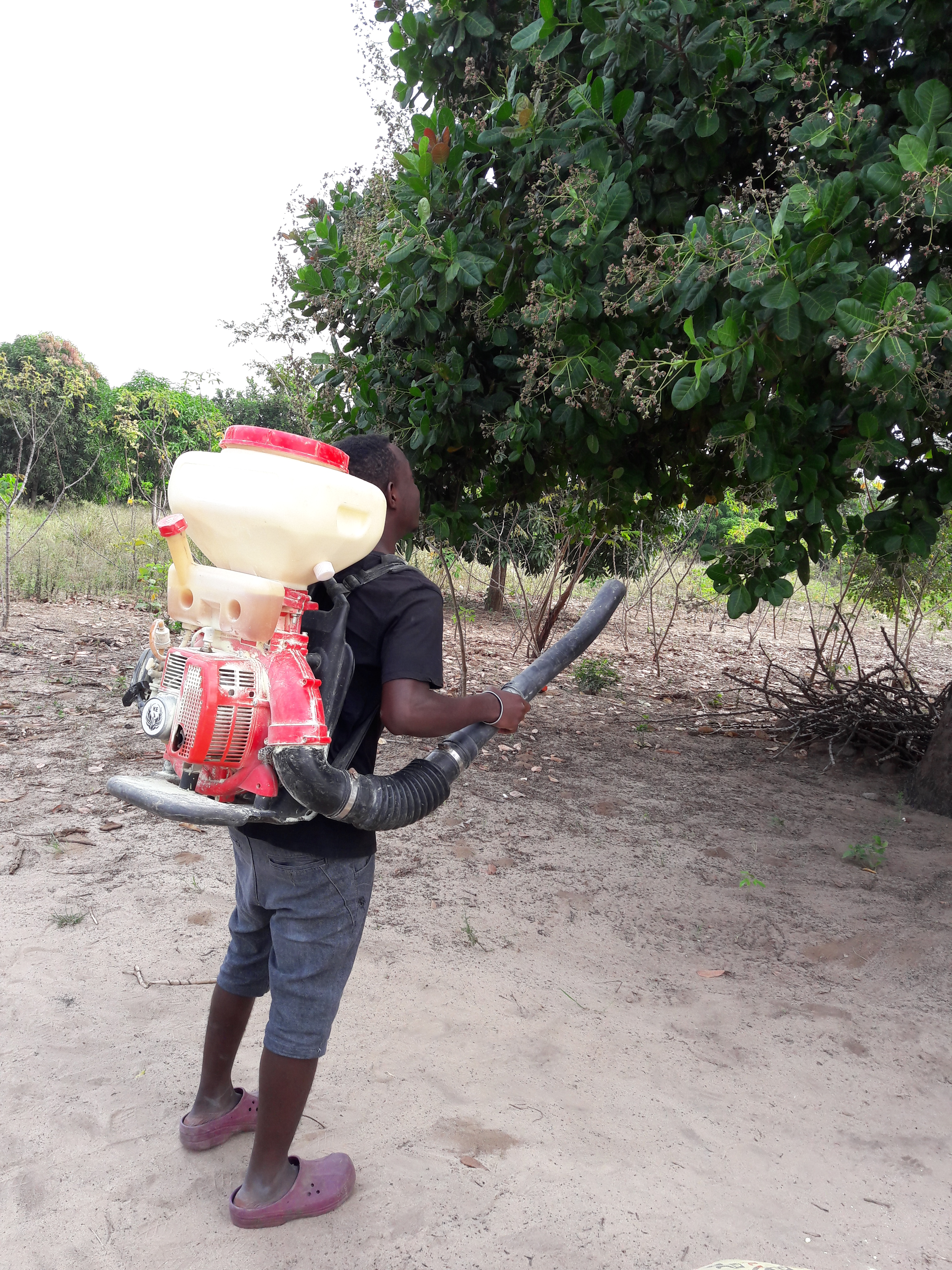 A farmer spraying a insecticide on cashewnut tree at mlandizi pwani tanzania This is an image of "African people at work" from Tanzania